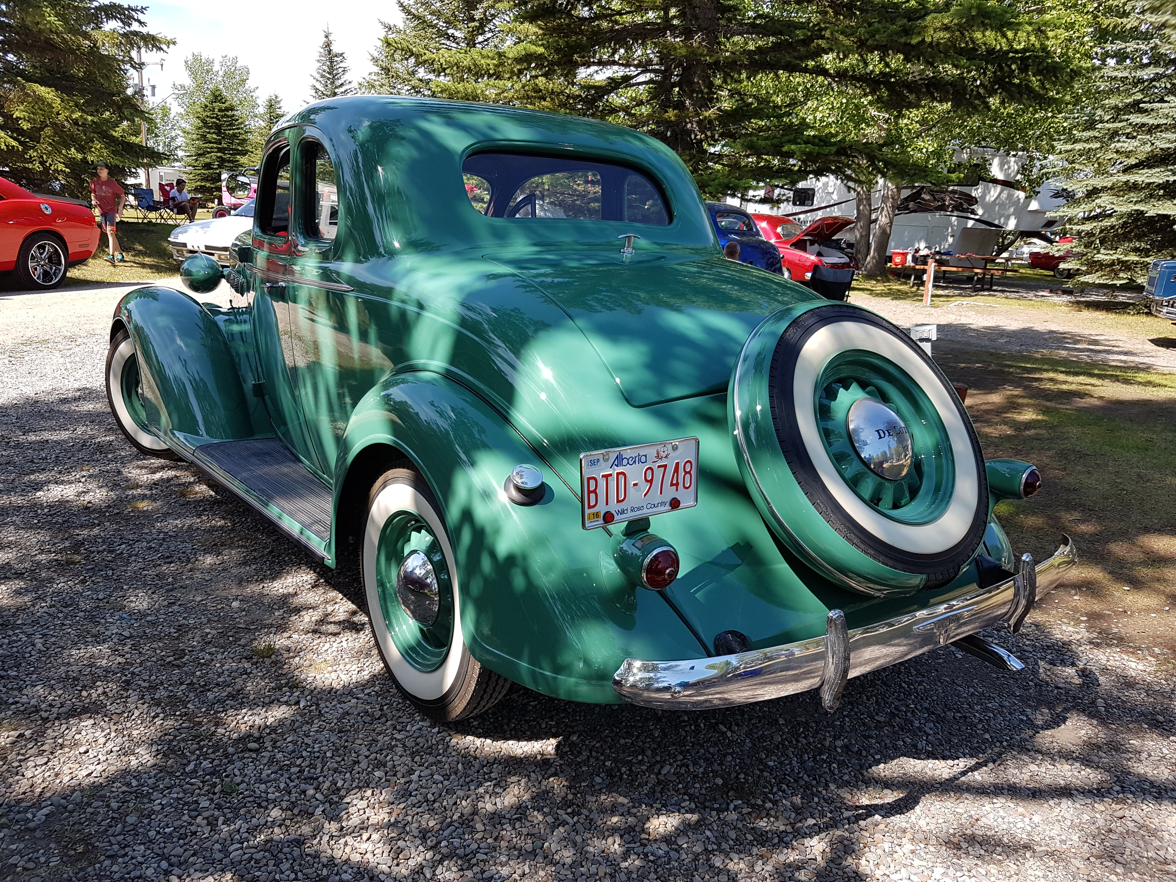 1936 Desoto Airstream Coupe rear